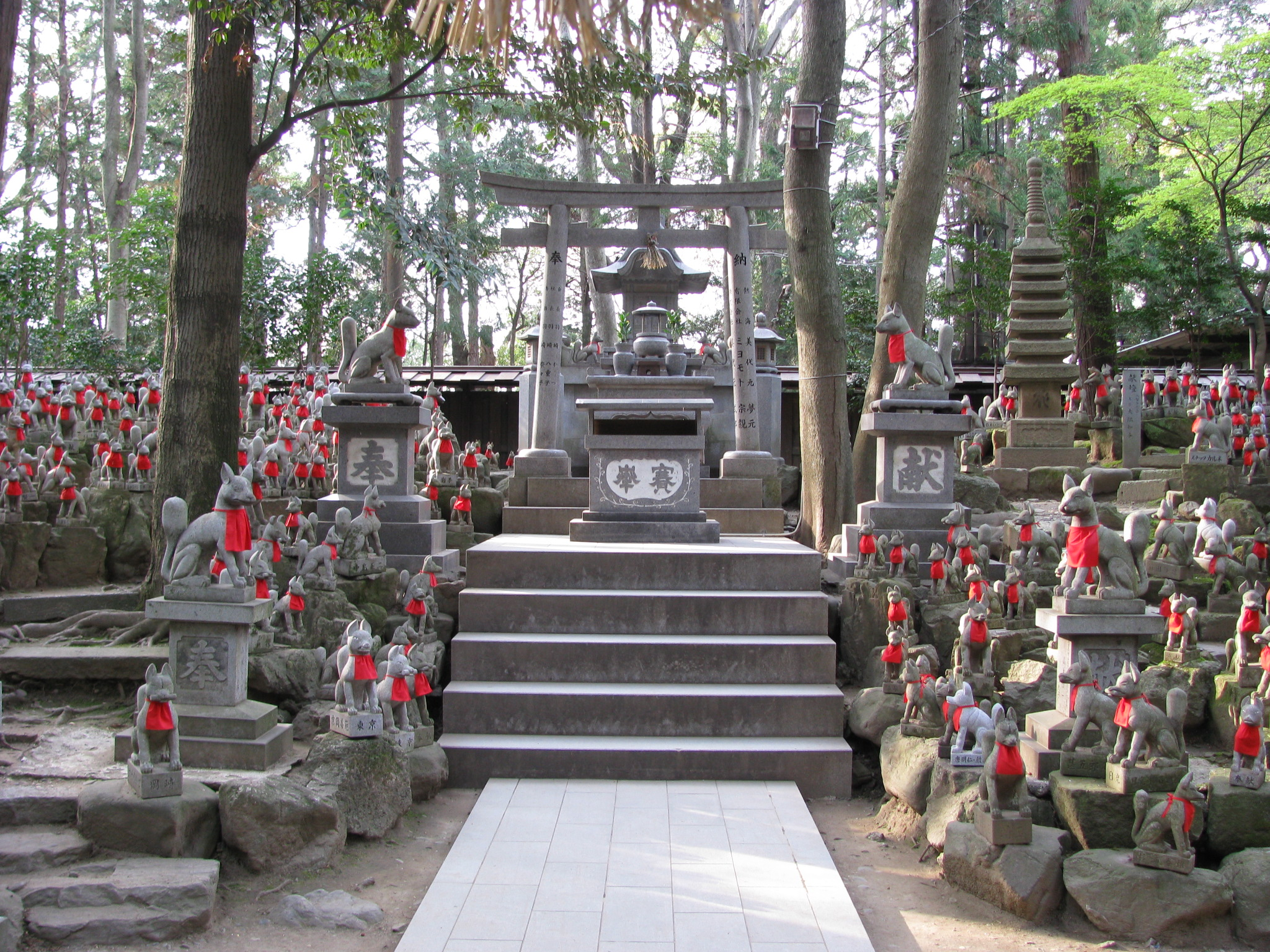 The Toyokawa Inari is a Buddist temple of the Sotoshu (Soto sect), located in Toyokawa, Aichi, Japan.